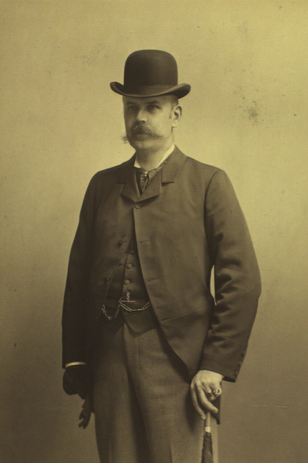 Gundo Seiersfred Vogt (1852-1939), Danish sculptor and estate owner